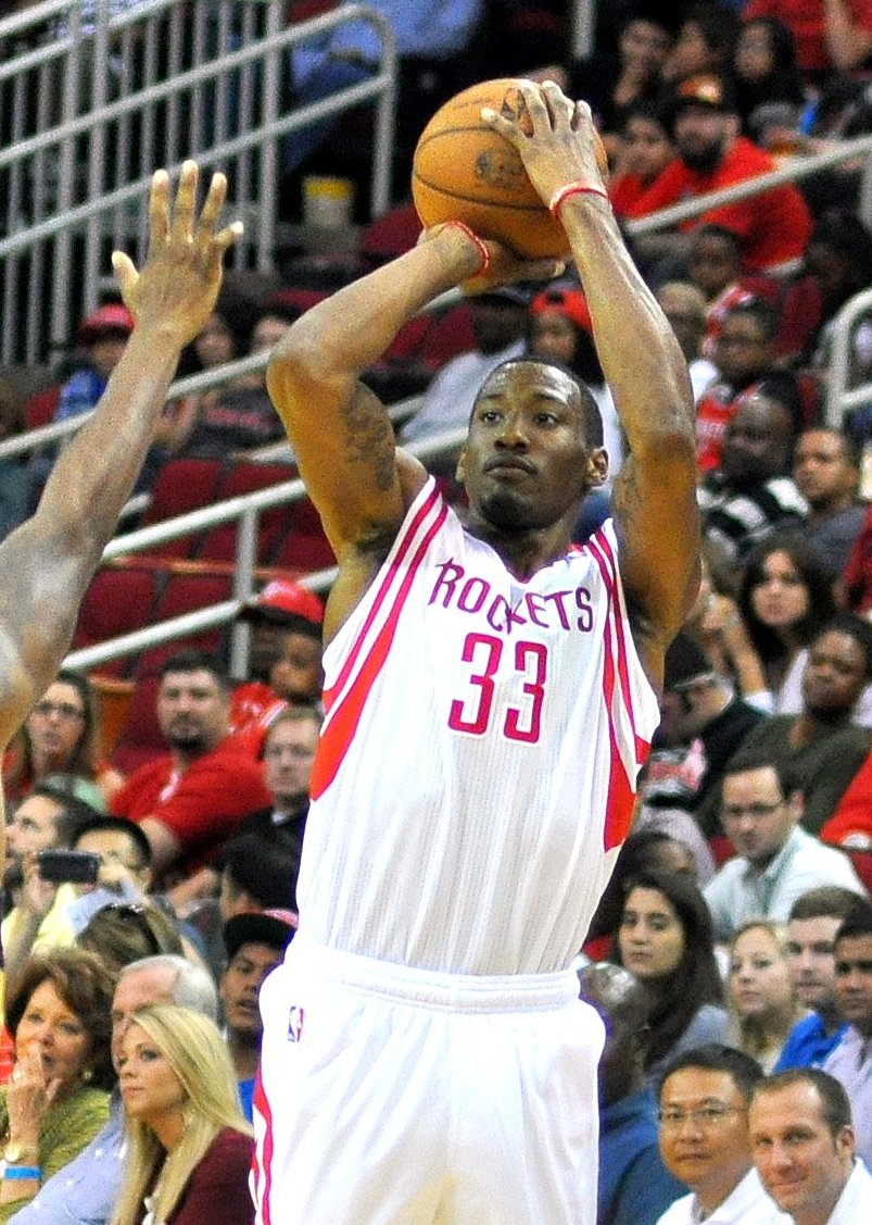 Robert Covington of the Houston Rockets shoots a jump shot during an NBA pre-season game against the New Orleans Pelicans on October 5, 2013, at the Toyota Center in Houston, Texas.